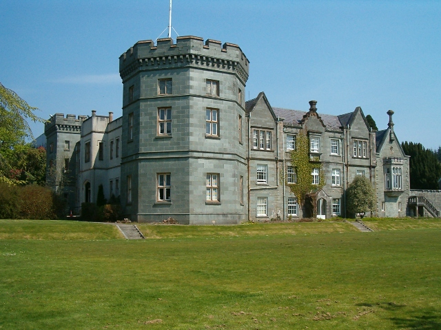 Kilmory Castle Kilmory Castle is the headquarters of Argyll & Bute Council. Although Kilmory’s deceptive castellated appearance and air of antiquity have caused it to be popularly referred to as a castle, it is in fact simply a rambling nineteenth century mansion house. Both the house and its extensive grounds were largely created by one man, the highly individual, near eccentric Sir John Powlett Orde of Kilmory and North Uist, over a period of fifty years from 1828 until his death in 1878. Kilmory House passed out of the Orde family in 1938. Thereafter there were a number of owners. For many years it was a Hostel and Conference Centre of the National Association of Mixed Youth Clubs. Later it reverted to a private hotel, but when it came on the market again in 1974, shortly before the re-organisation of local government in Scotland, it was acquired by Argyll County Council specifically for use as the Headquarters of Argyll and Bute District Council.